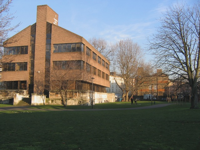 Nasmith House, at the junction of Fair Street and Tower Bridge Road, Bermondsey, London SE1. The headquarters of London City Mission, built on the footings of the demolished parish church of St John, Horsleydown, which was severely damaged by a Luftwaffe bomb in 1940 and was demolished after 1968. The churchyard had been a park since long before the War and was restored by the London Borough of Southwark in 2002.